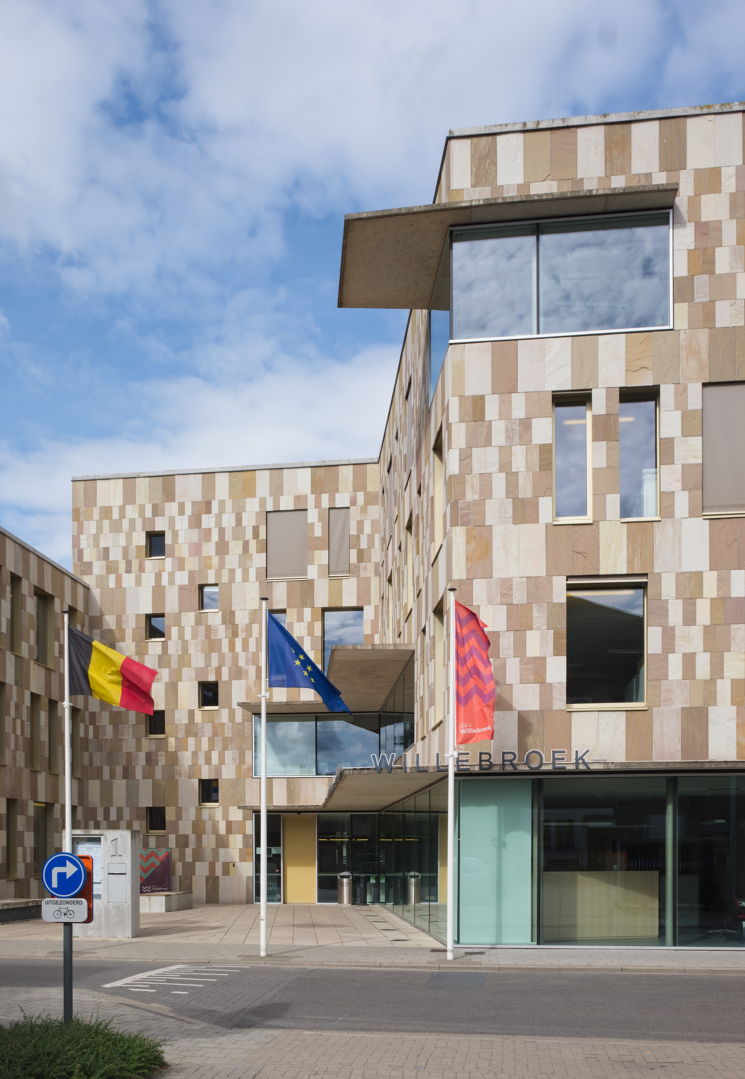 Willebroek town hall